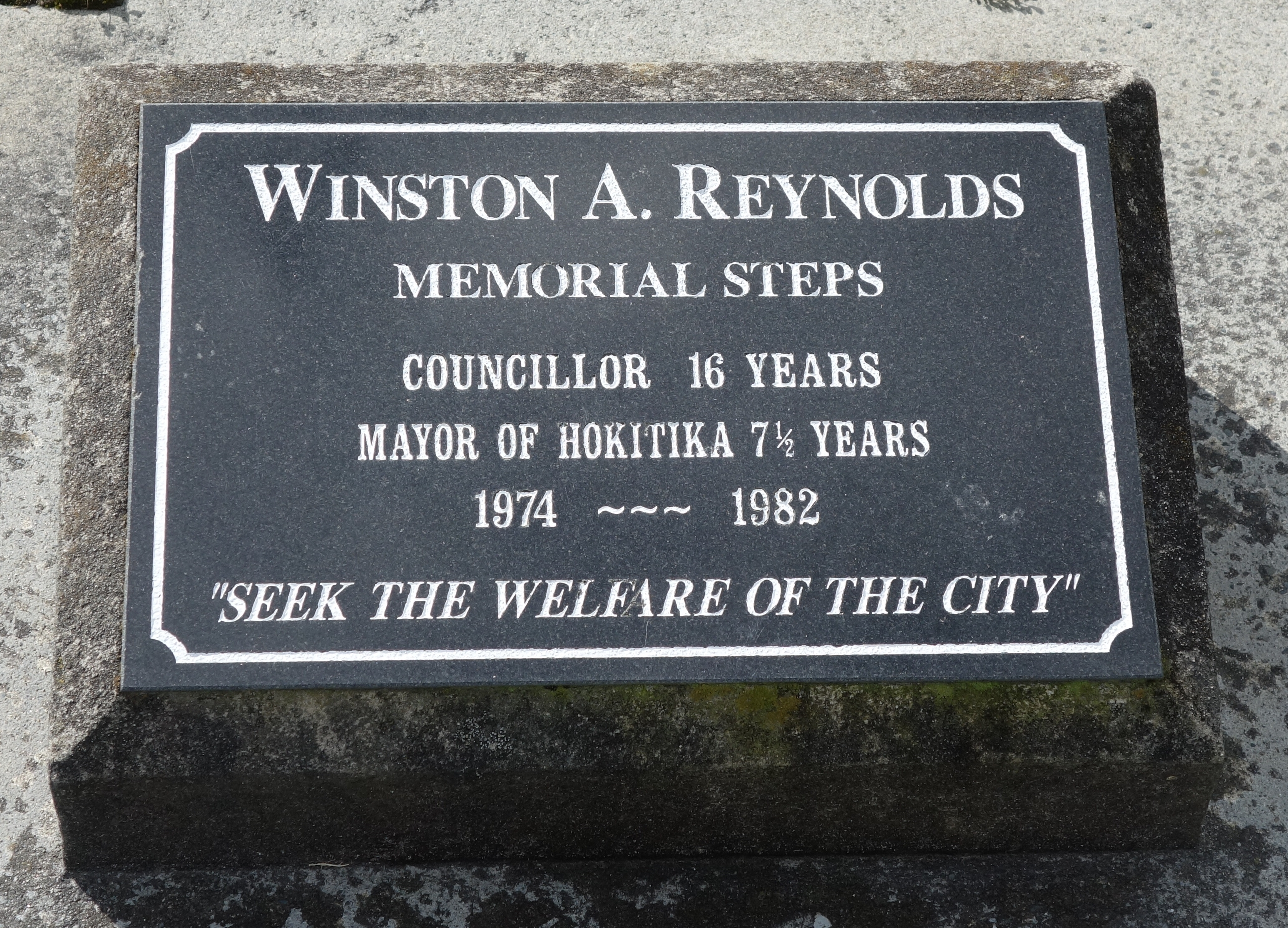 Hokitika